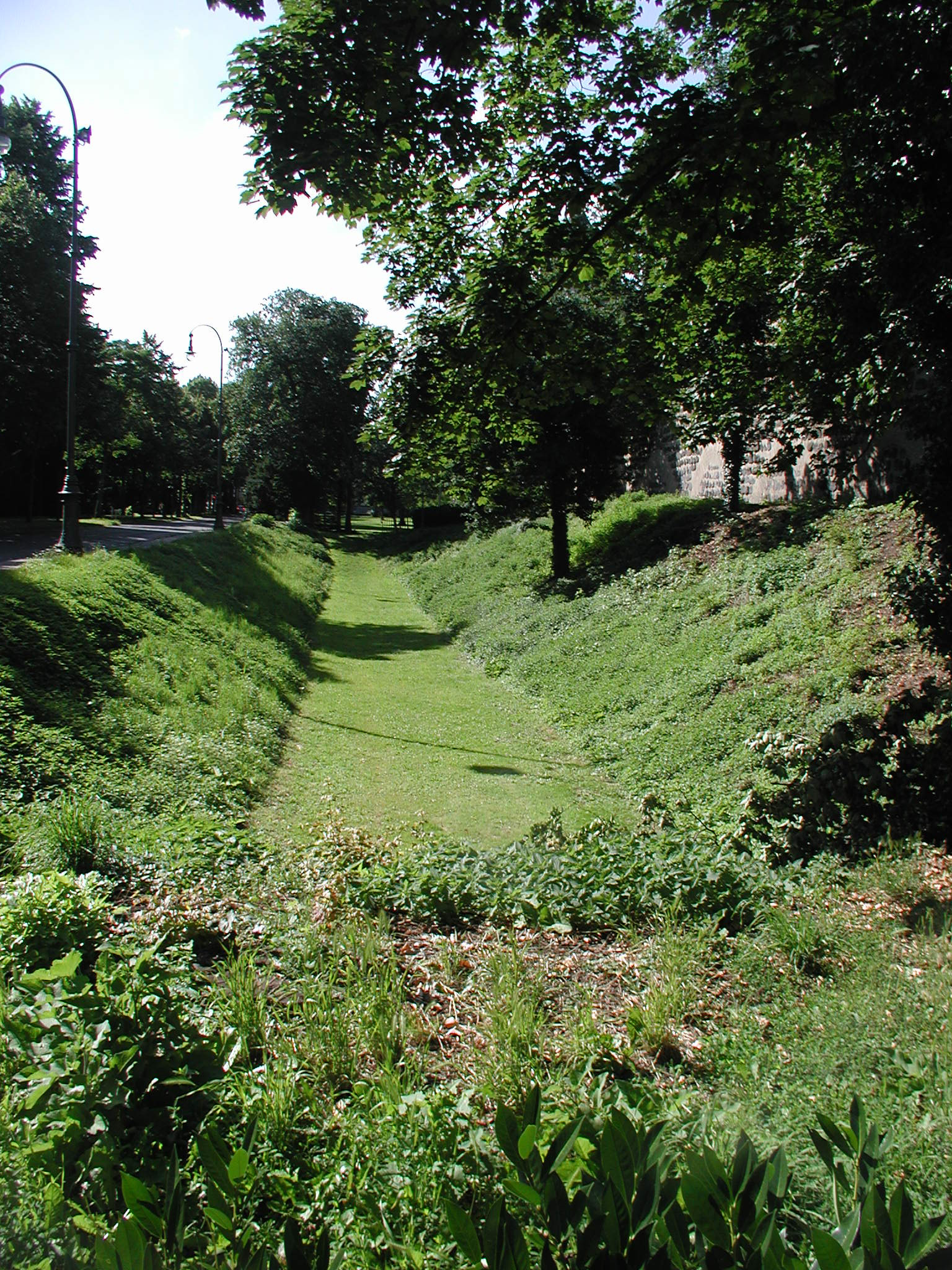 Cologne, ancient city wall ditch